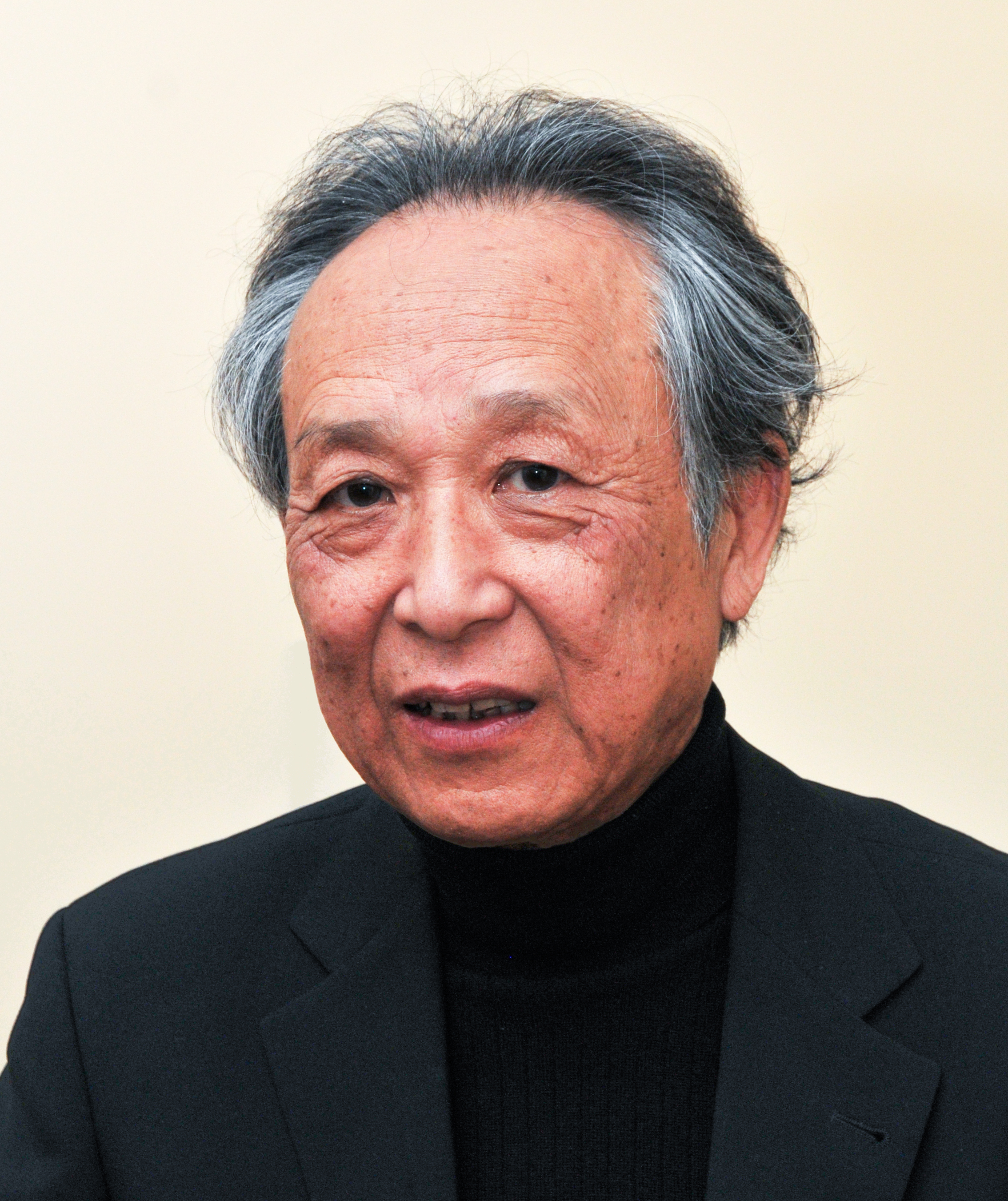 Gao Xingjian, Nobel laureate in Literature, at Galerie Simoncini in Luxembourg, September 2012.